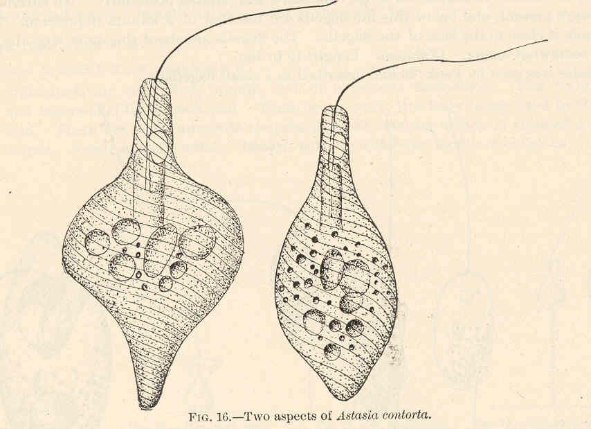 Astasia contorta--Two Aspects Subject: Astasia Tag: Invertebrates